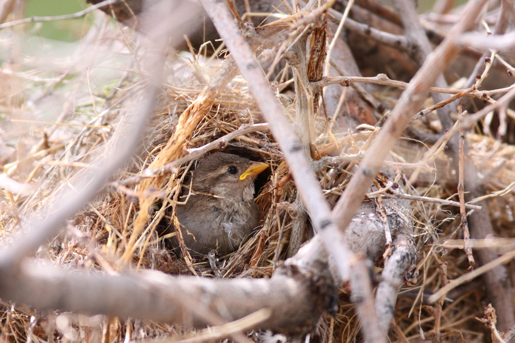 A juvenile House Sparrow near the Tule Lake National Wildlife refuge, California, USA. I is waiting for food from its parents. The nest is an abandoned Northern Oriole nest. Three days later the chicks had flown.